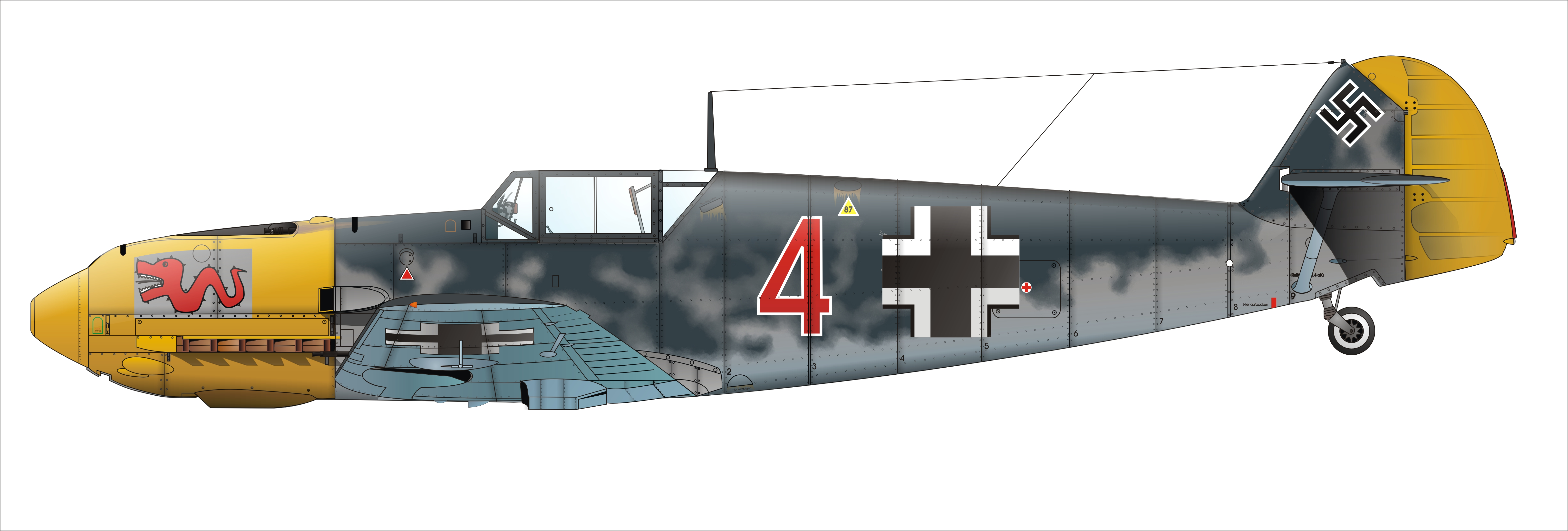 Bf 109 E-3